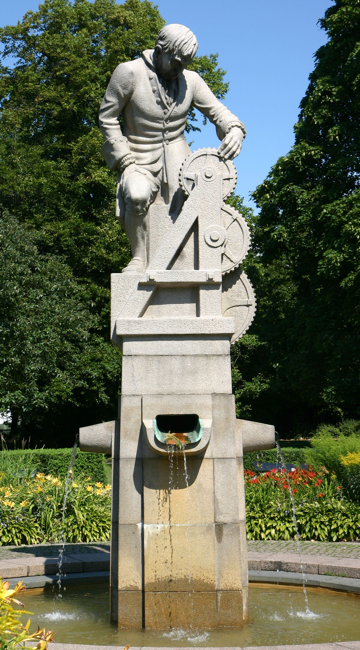 Statue over Christopher Polhem in Gothenburg, raised in 1951.